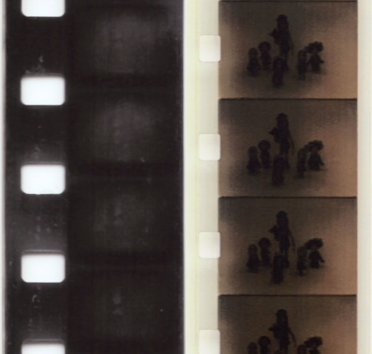 The two main 8 mm film types: standard (left) and super (right).